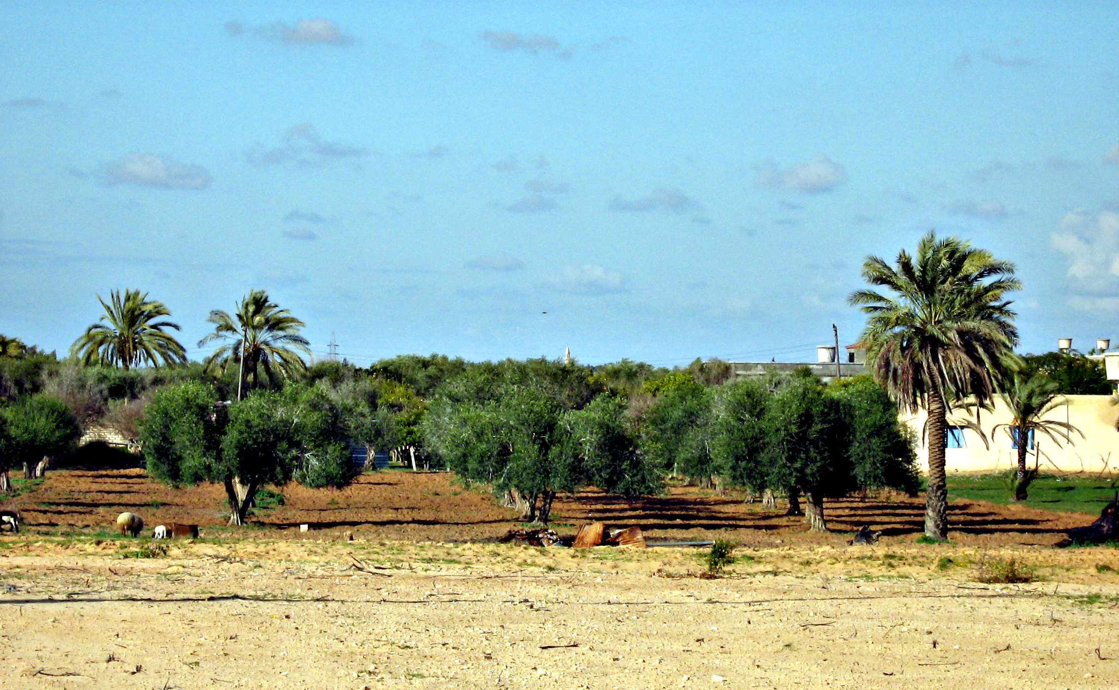 Citrus garden in Tripolitania. Libya.